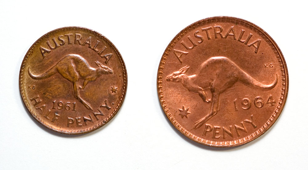 Australian 1961 half-penny and 1964 penny These coins have not been used in circulation since ~1966, when the change was made to a decimal currency system. Apparently Australian copyright only applies to coins after 1969, 1 so there's no need for any fair-use tags here.